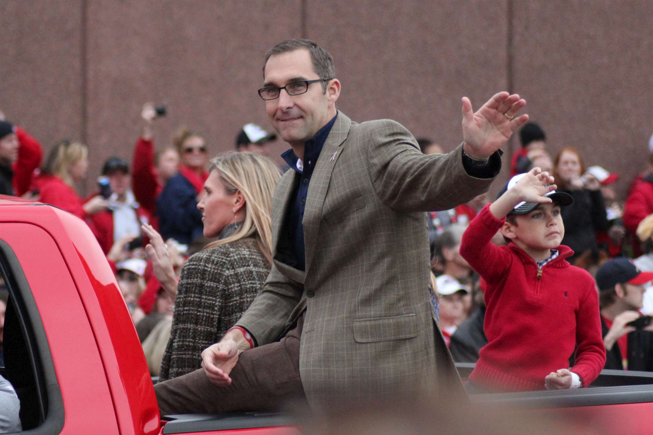 John Mozeliak during the 2011 World Series victory parade Saint Louis Oct 30 ,2011.